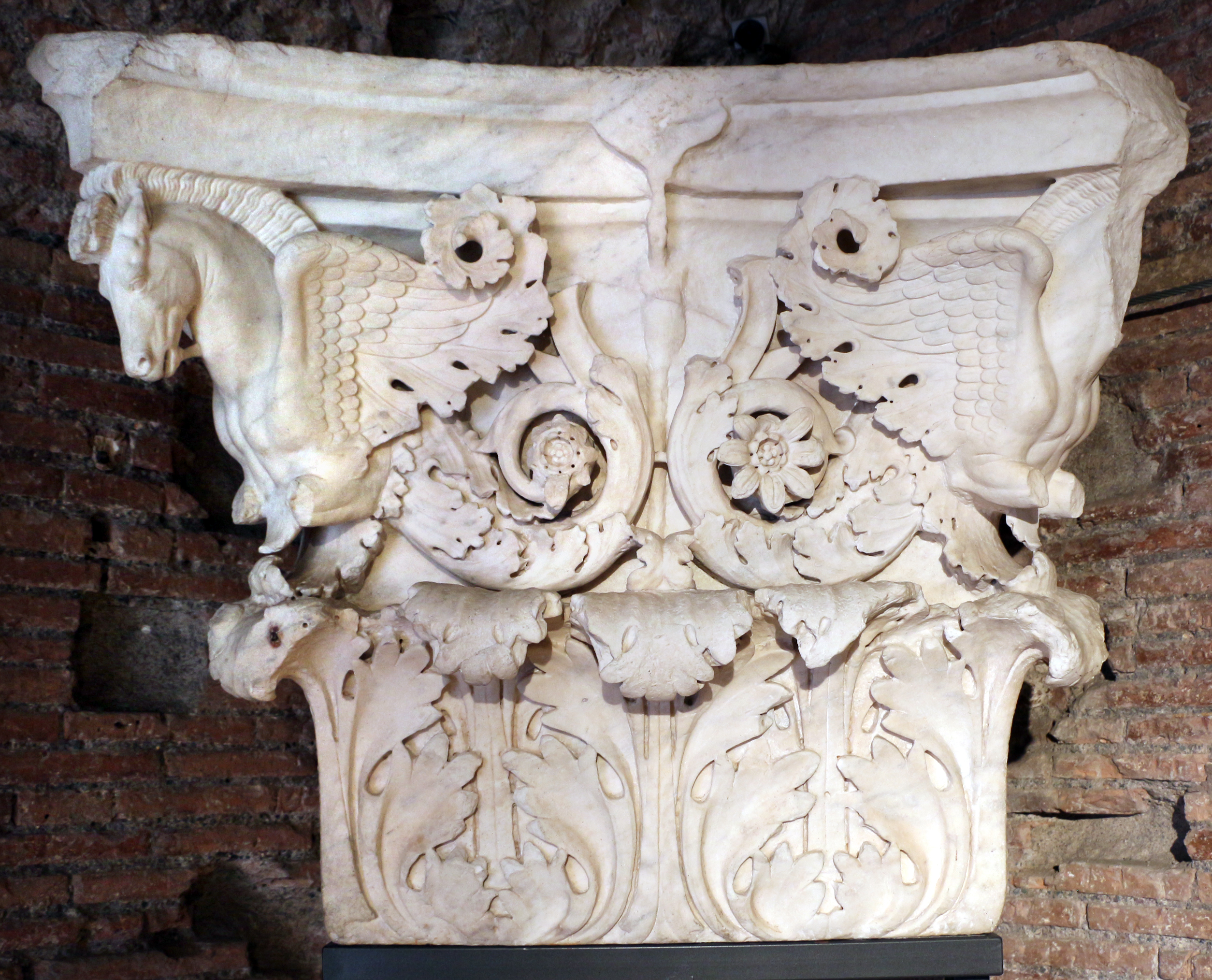 Museo dei Fori Imperiali, Roma